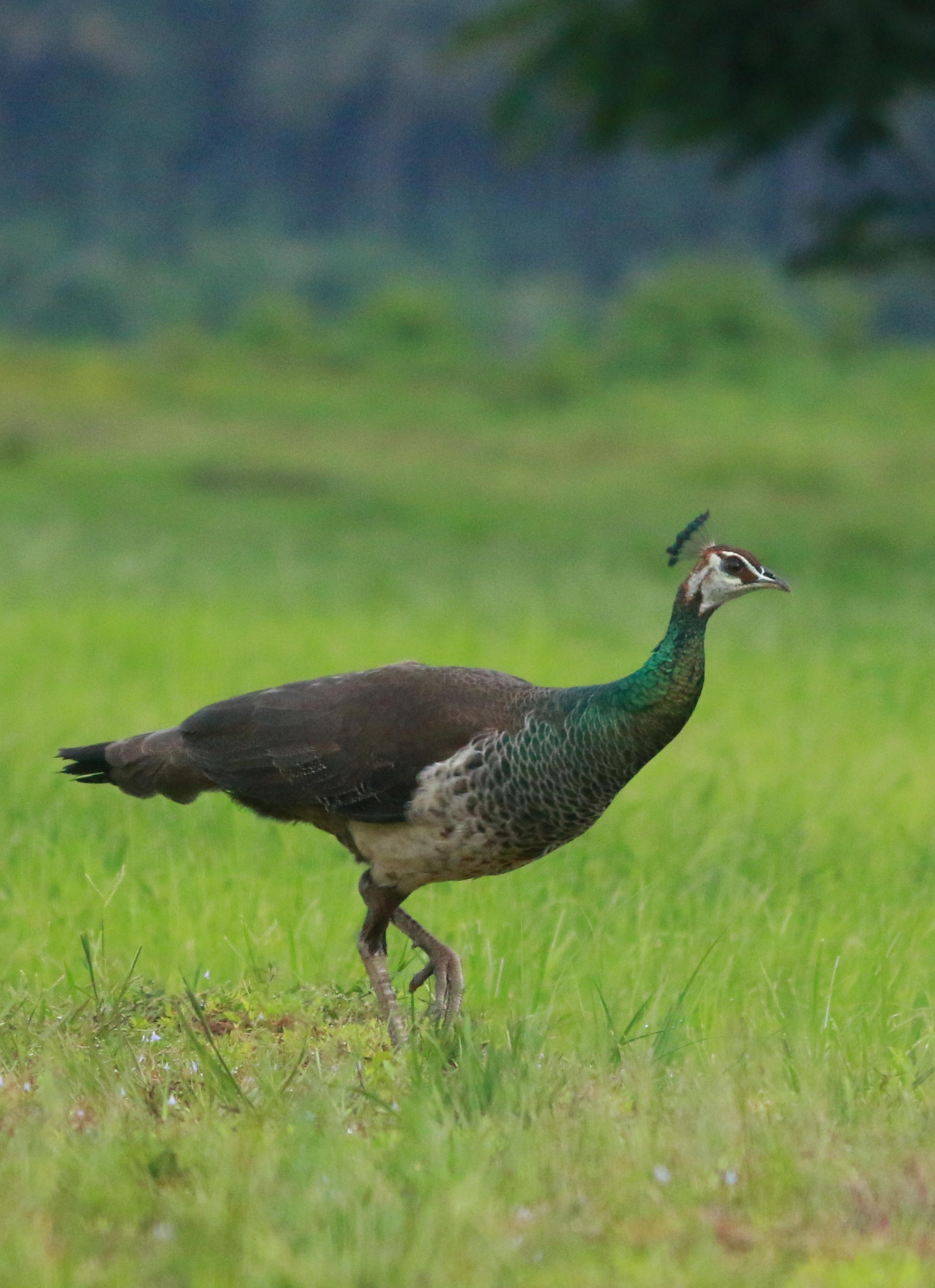 Indian peafowl female walking